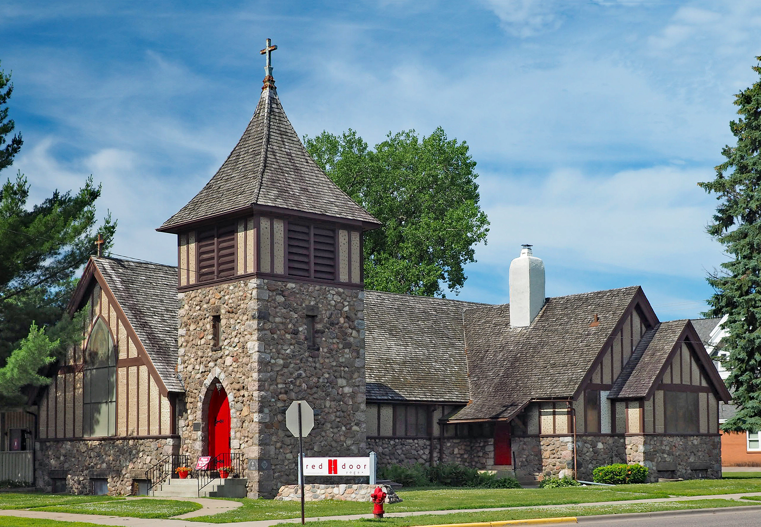 Church of Our Savior (now Red Door Yoga), 113 4th St NE, Little Falls, Minnesota, USA. Viewed from the northwest.